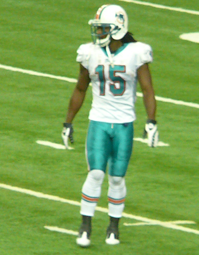 If used somewhere other than Wikipedia, Nelson, by name.